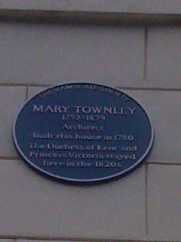 Plaque at Townley House, Ramsgate, commemorating the architect Mary Townley